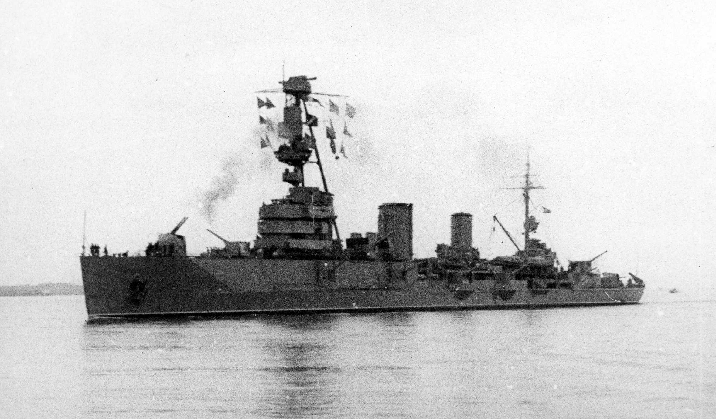 Soviet cruiser Krasnyi Krym goes to Sevastopol, 5 November 1944.